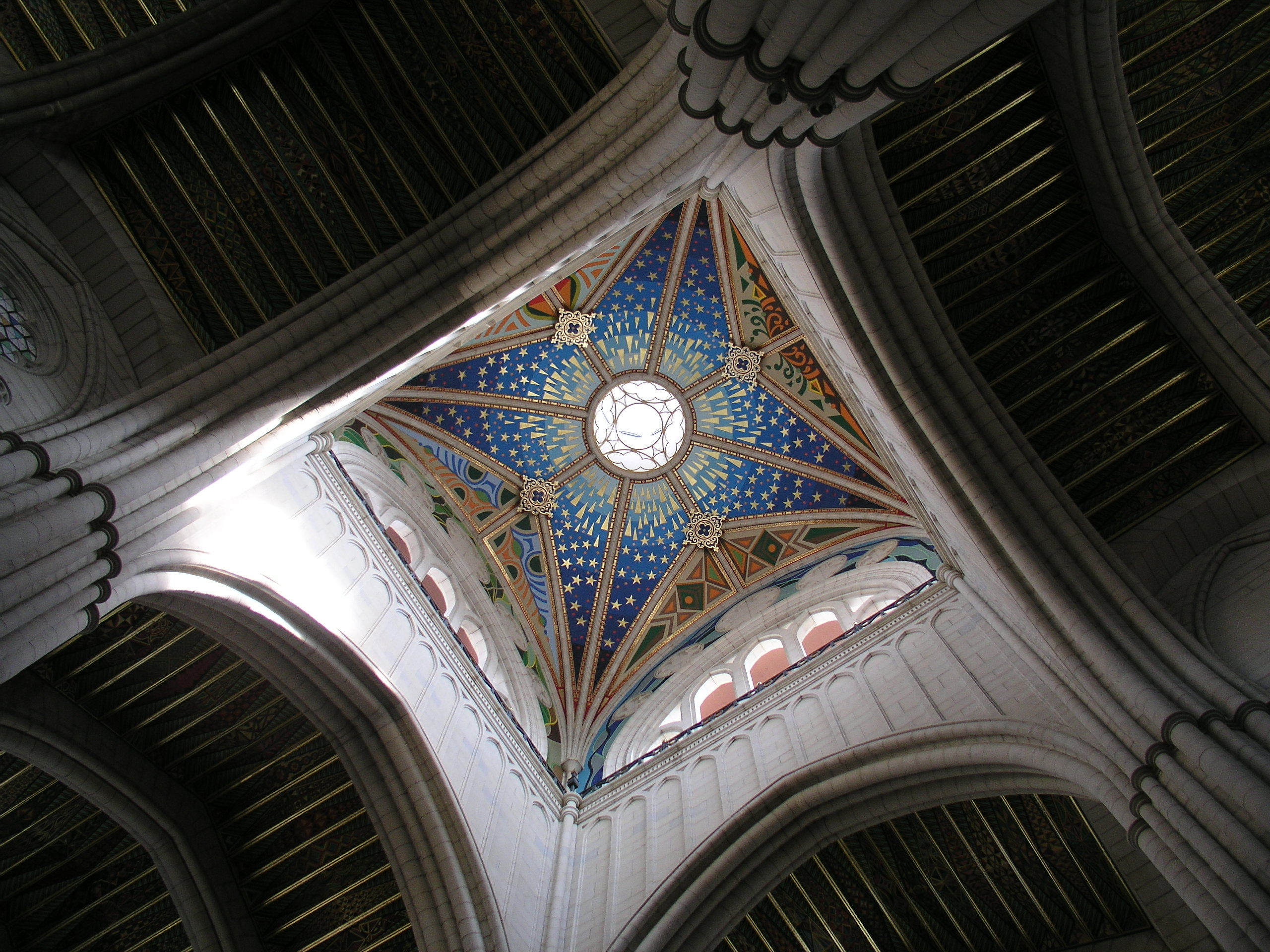 Catedral Nuestra Señora de la Almudena, painted roof. Madrid, Spain. The picture was taken the 23 of July 2003 by Håkan Svensson (Xauxa). No corrections have been done to the picture.